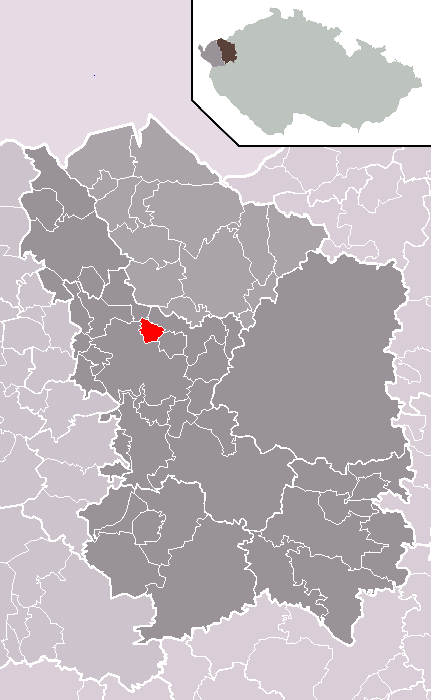 Location of Otovice municipality within Karlovy Vary District and administrative area of Karlovy Vary as a Municipality with Extended Competence.